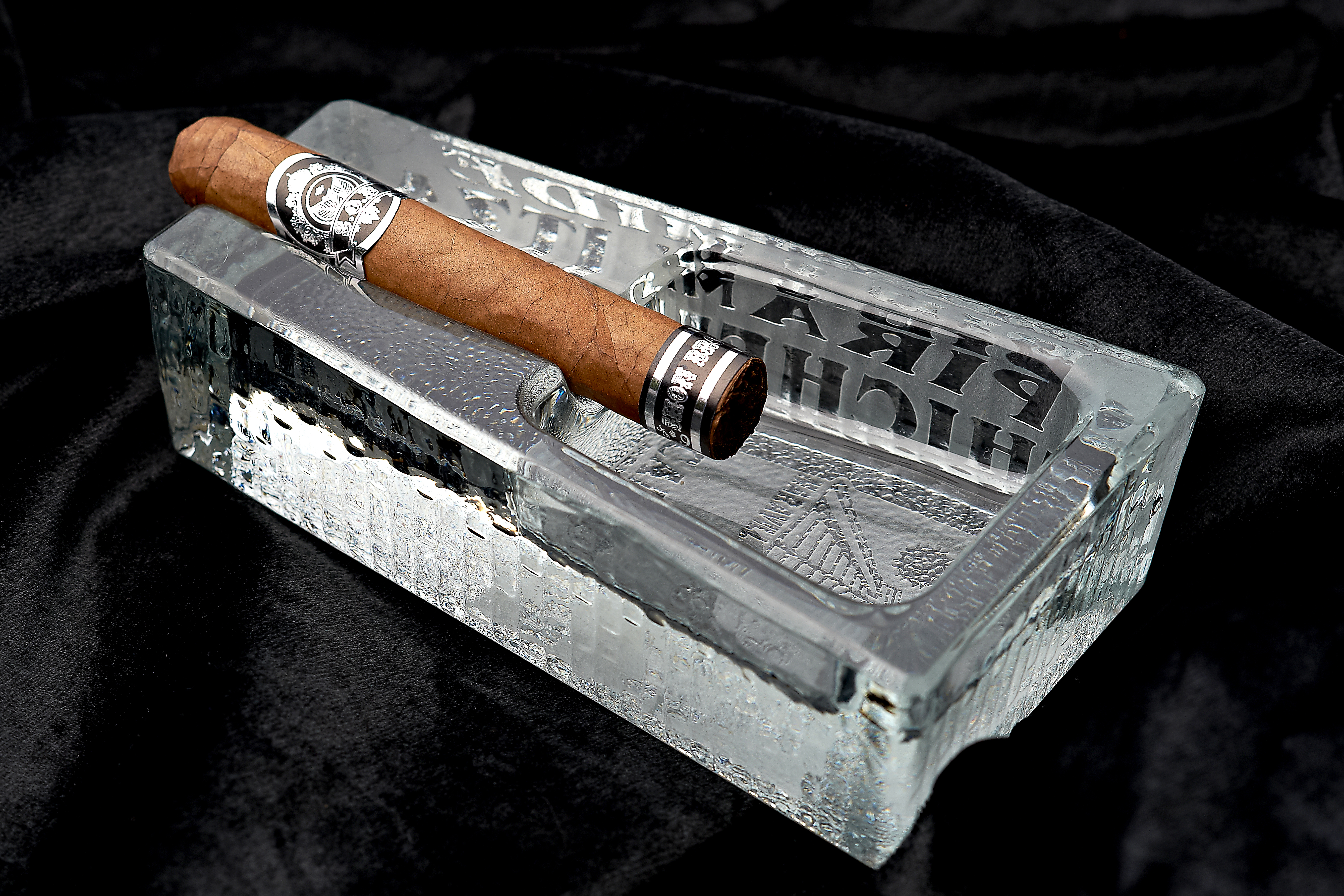 it shows a single cigar resting in an acrylic ashtray